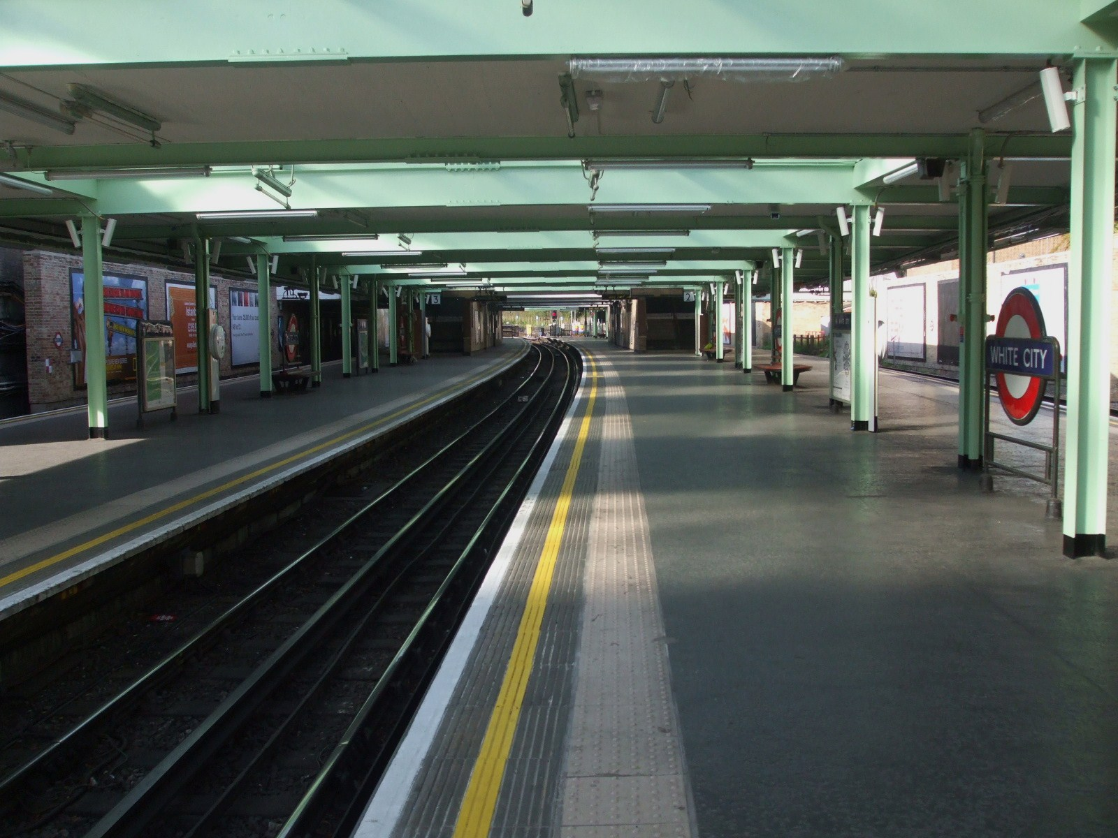 White City tube station centre track looking west, served by platforms either side. Normally used by terminating westbound trains. This is the only surface station on London Underground with right-hand running.